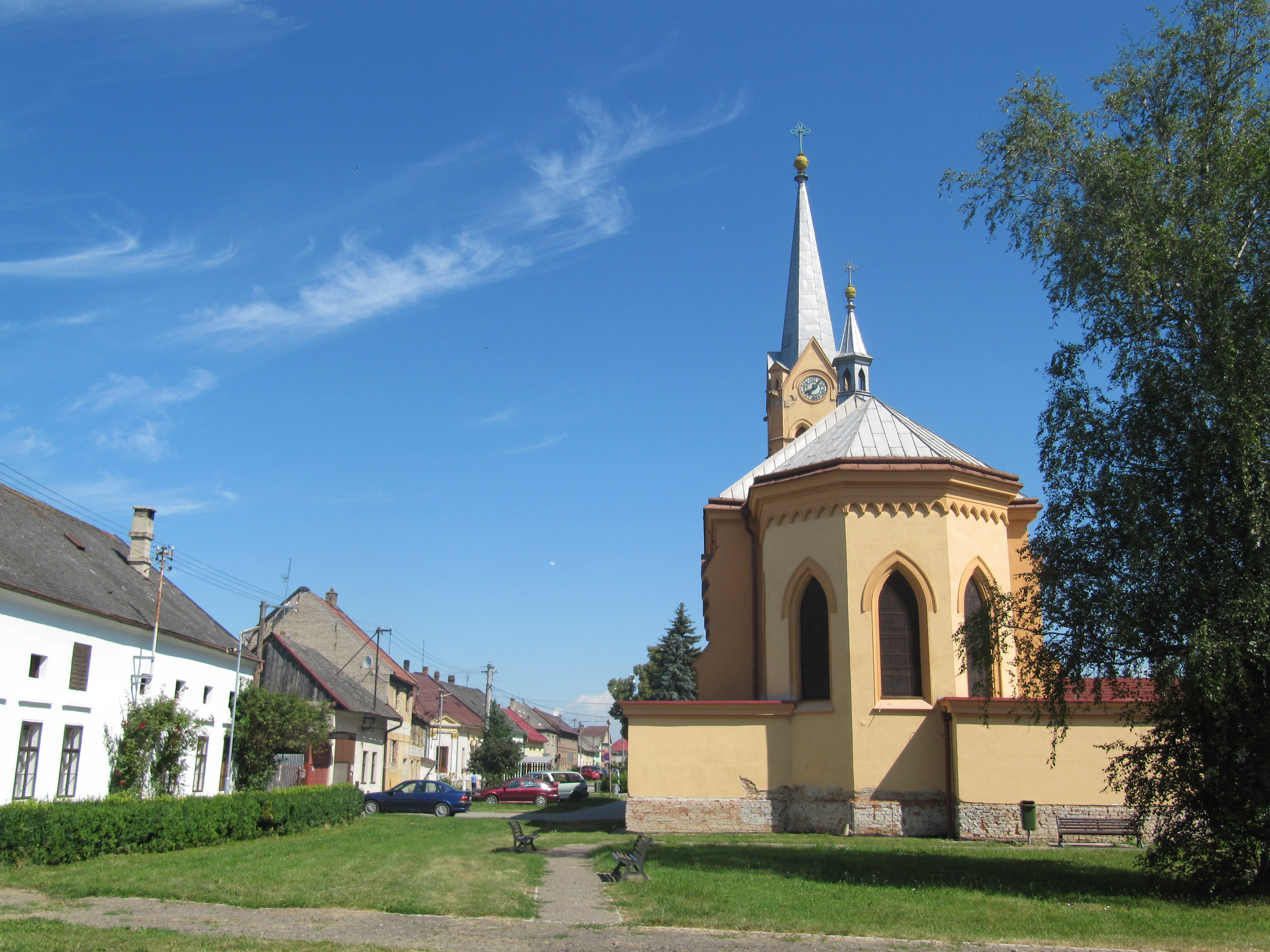 Kyselovice, Kroměříž District, Czech Republic.